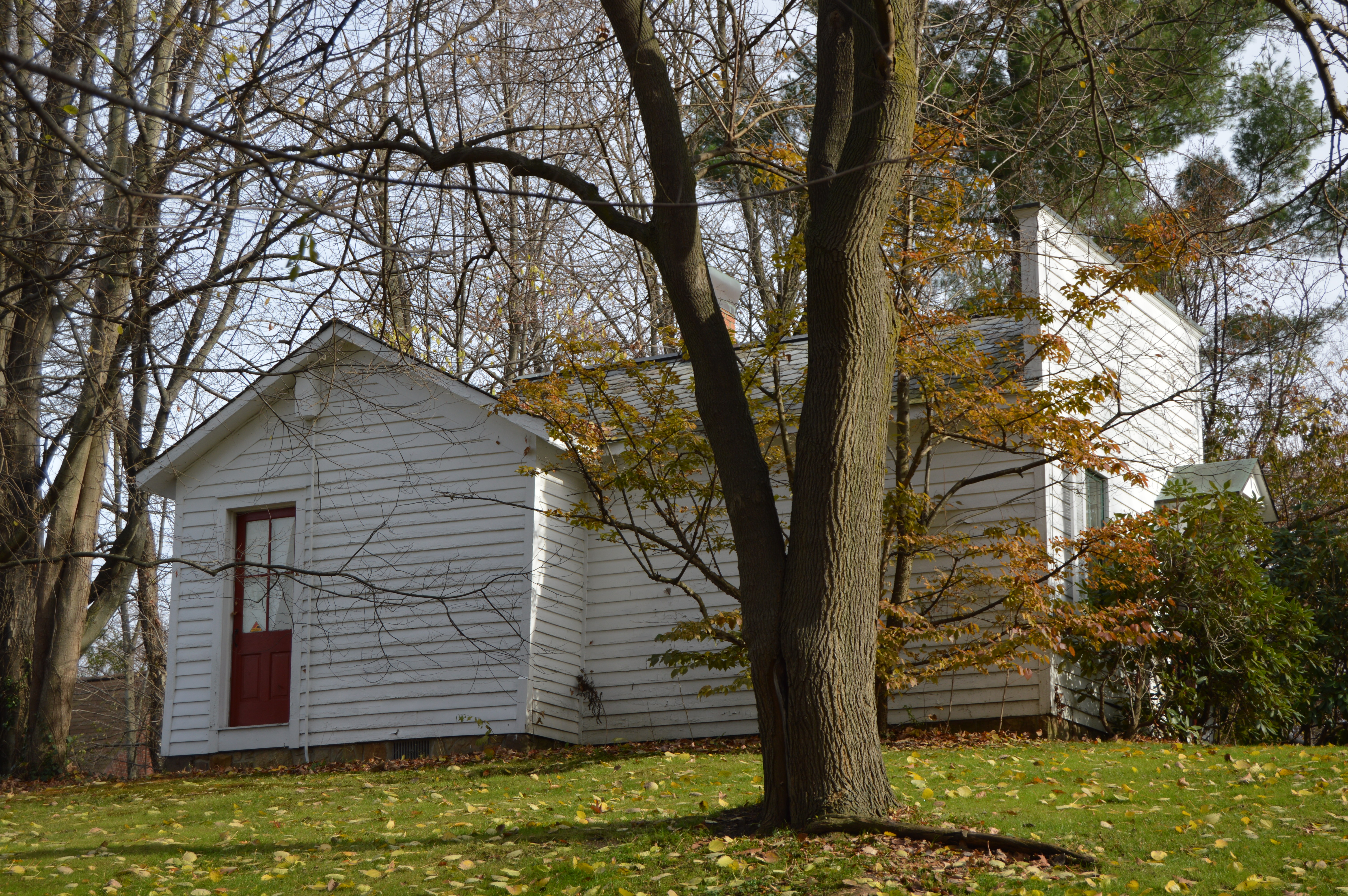 Western side and front of the Dr. J. R. Mosier Office, located on the grounds of the Baldwin-Reynolds House in Meadville, Pennsylvania, United States. Built in 1890 and moved to this location in the twentieth century, it is listed on the National Register of Historic Places.